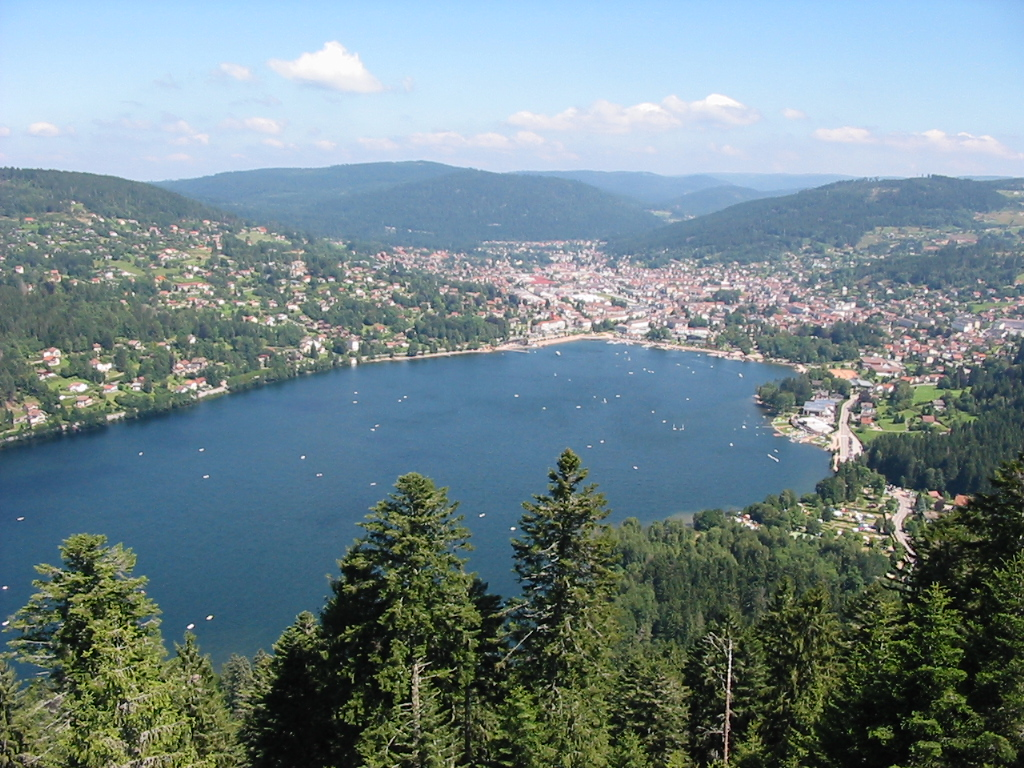 View of the city of Gérardmer, Vosges department, France